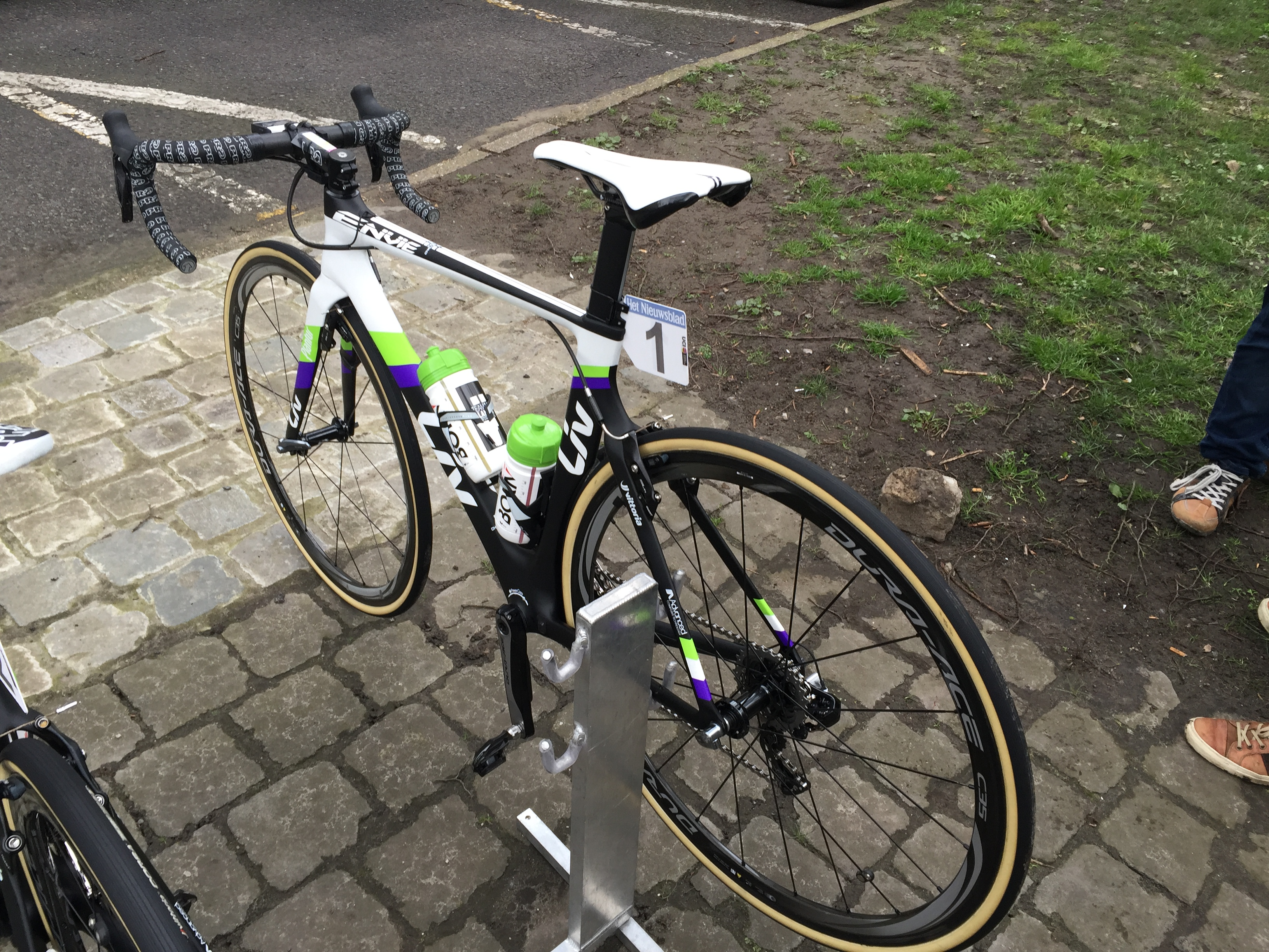 2016 Gent–Wevelgem (women)